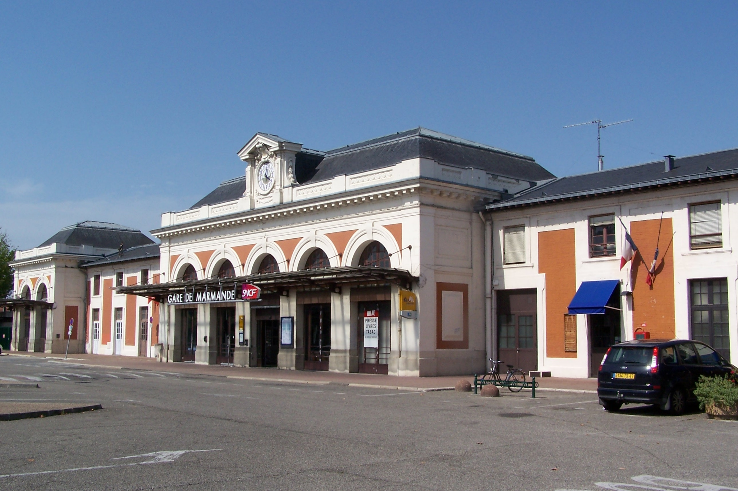 Train station of Marmande (Lot-et-Garonne, France)